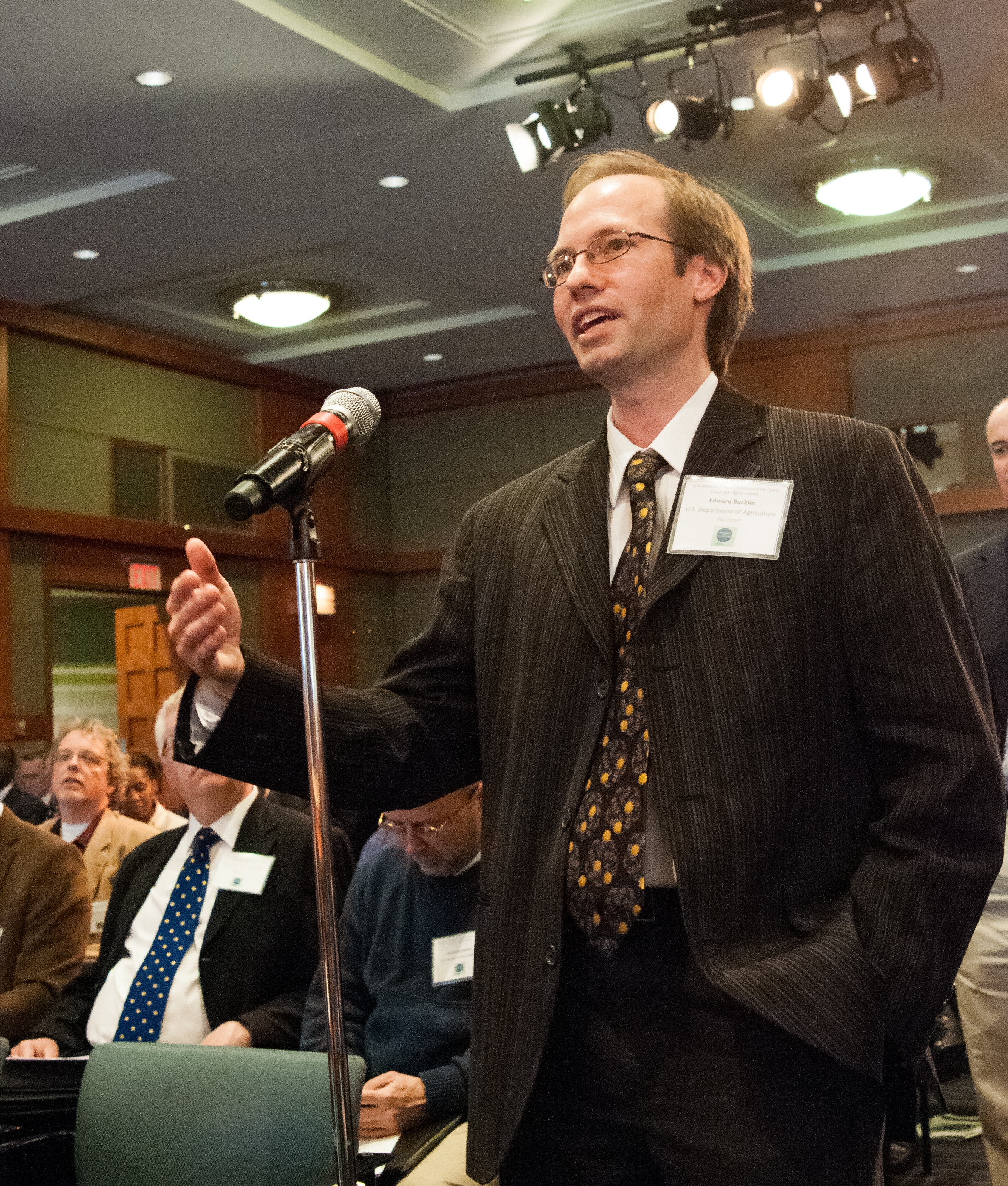 Edward Buckler speaks at the G-8 International Conference on Open Data for Agriculture in Washington, D.C. Taken on Apr. 30, 2013. Photo Taken by Bob Nichols (USDA)